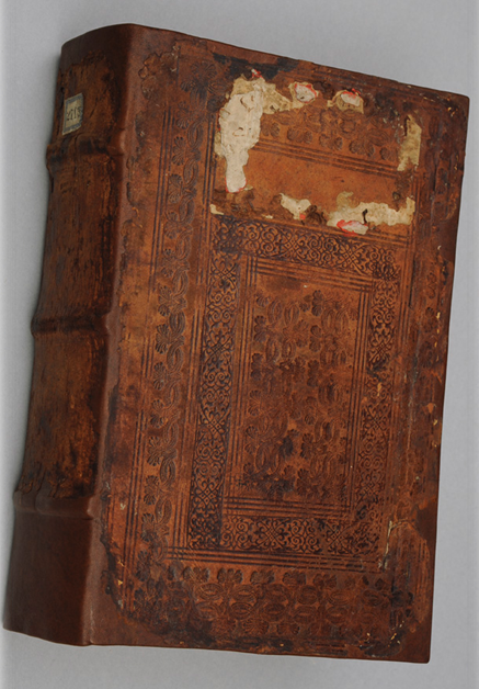 Bozner Bürgerbuch 1551, Hs 2713, Einband